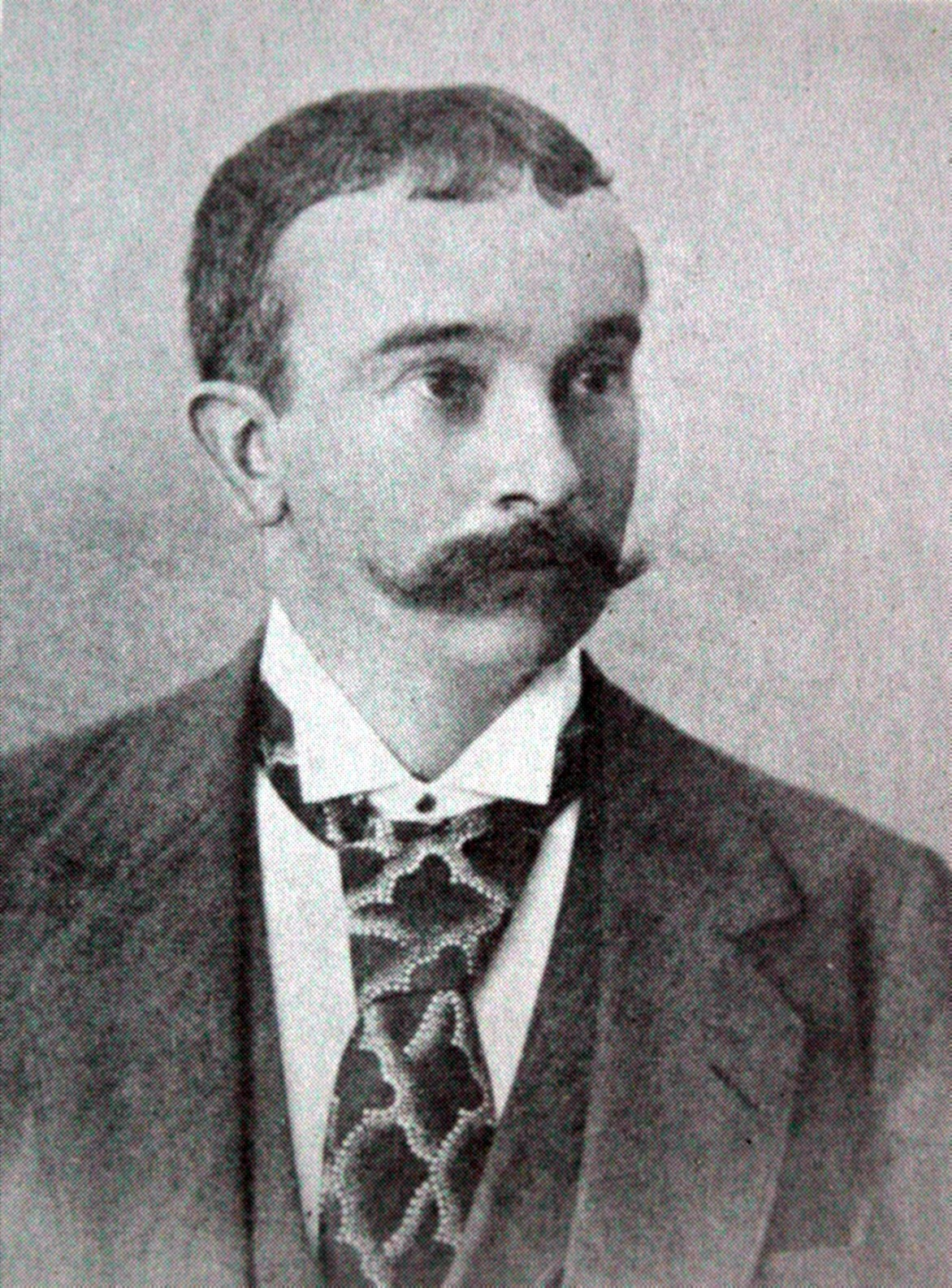 author deceased more than 100 years Paul venter 15:21, 4 October 2006 (UTC)